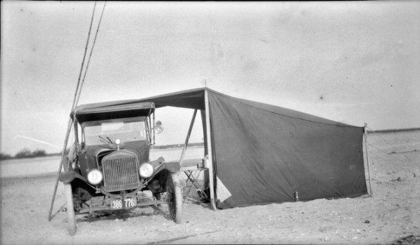 The front side view of a damaged car with license plate 1017